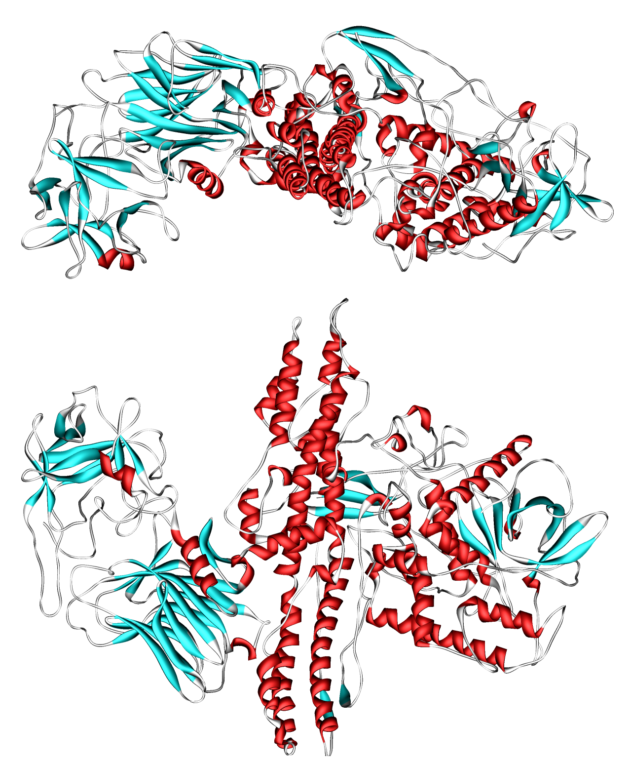 3d ribbon model of botulinum neurotoxin serotype A (botox) from PDB 3BTA. Ref.: Lacy, D.B., Tepp, W., Cohen, A.C., DasGupta, B.R., Stevens, R.C. (1998) Crystal structure of botulinum neurotoxin type A and implications for toxicity. Nat.Struct.Biol. 5: 898-902 PMID 9783750